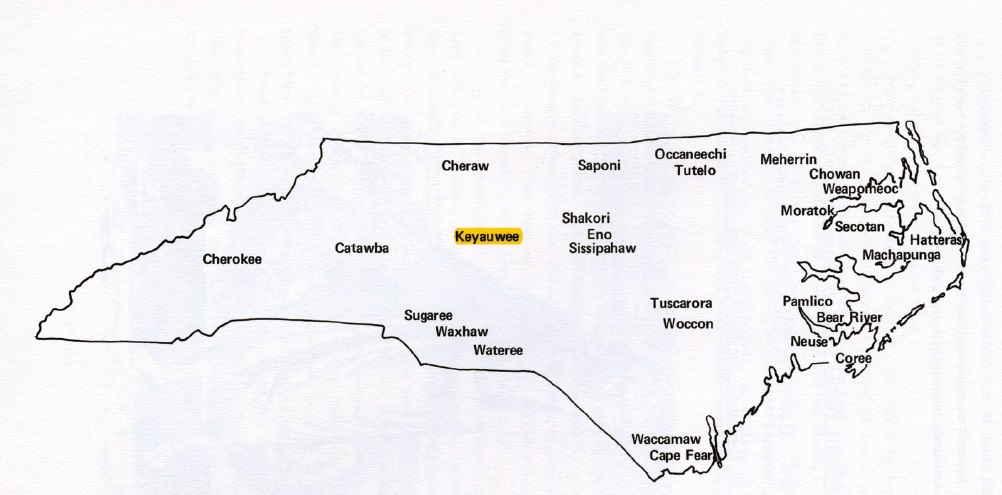 North Carolina Indians Geography